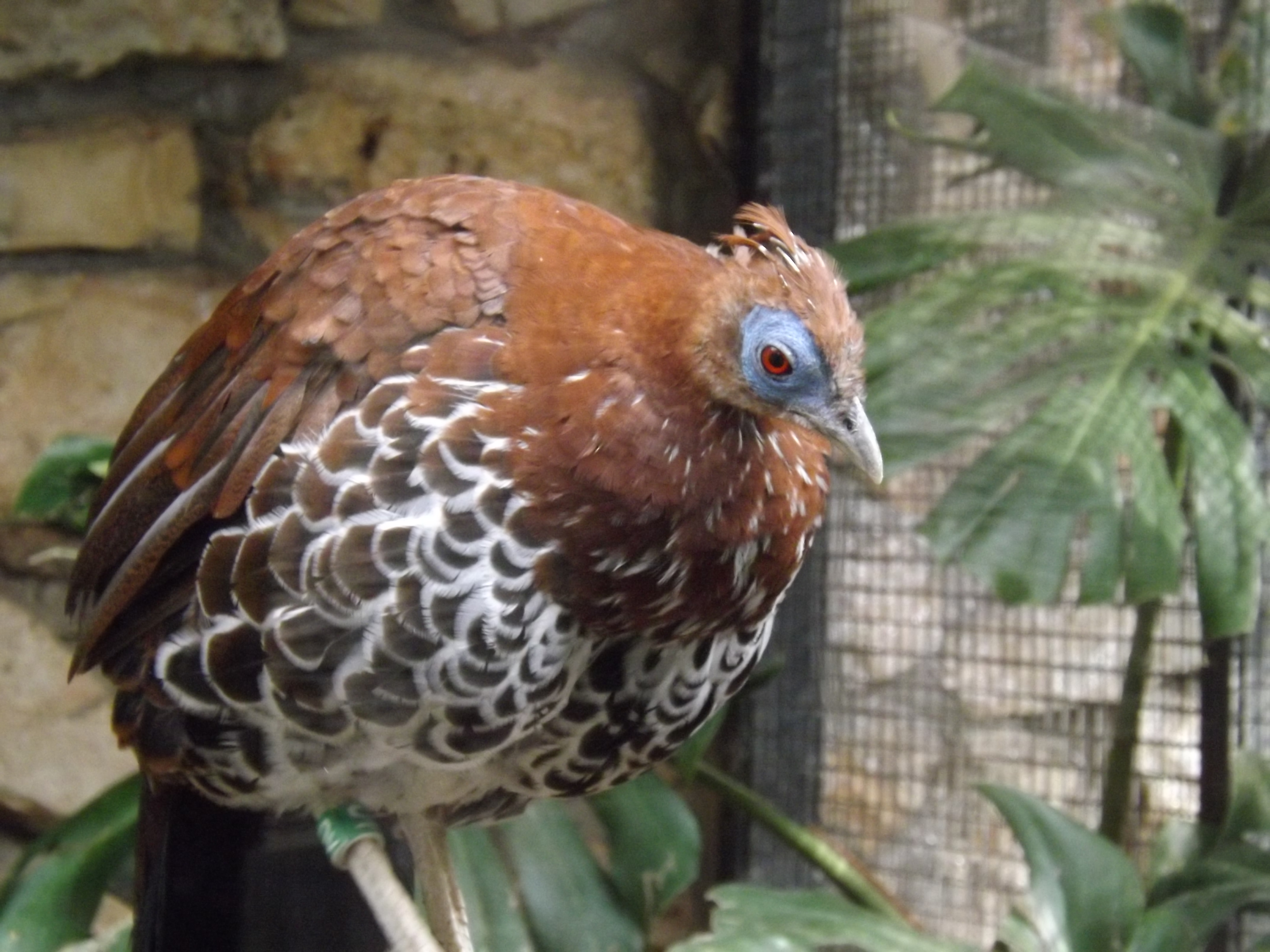 A female Crested Fireback (Lophura ignita) at the Jerusalem Biblical Zoo.